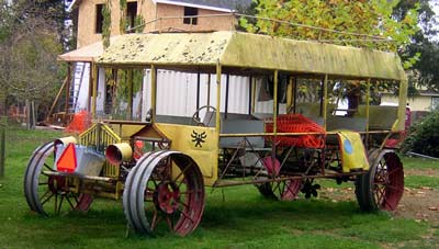 The Original People Powered Bus created by Hobart Brown, it was a gift from Hobart to Ellin in 2002 and remains in the yard of Ellin Beltz, providing much needed storage for Kinetic Snow Fencing and other supplies.